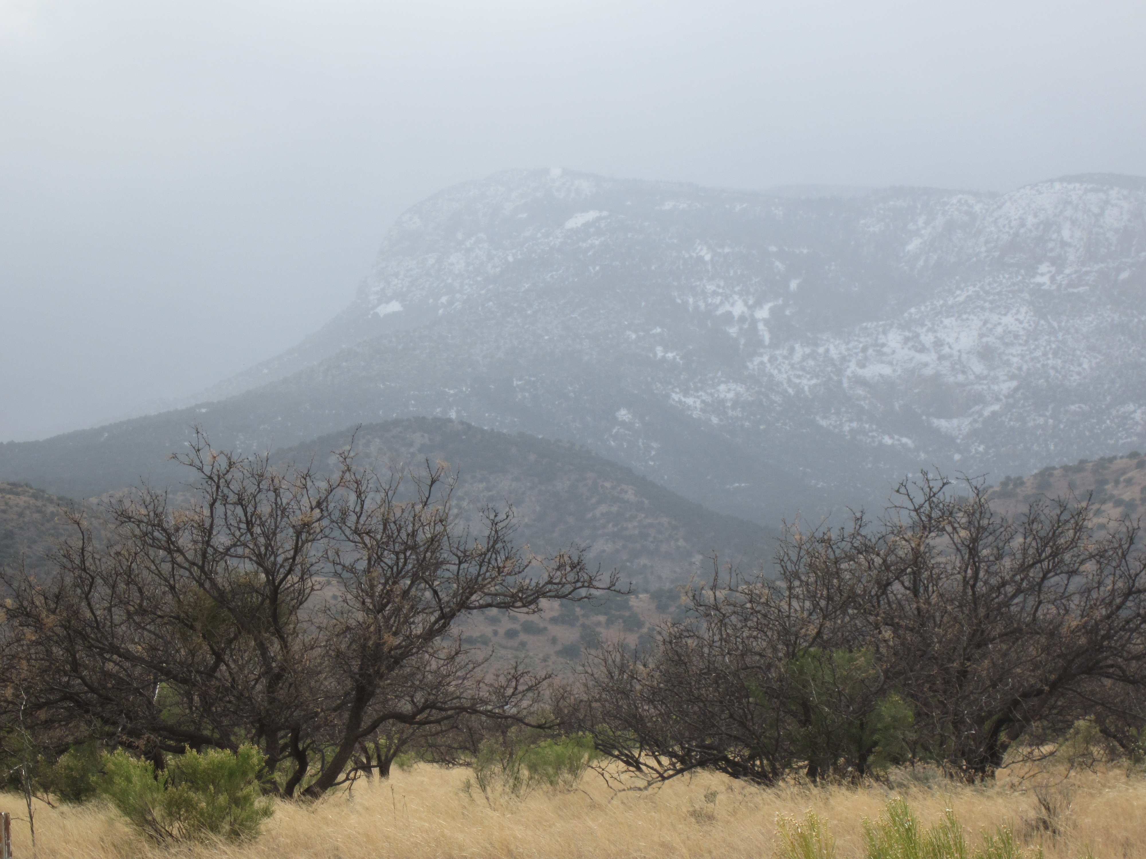 Another view of snow capped mountains south of Sierra Vista from December 2010.